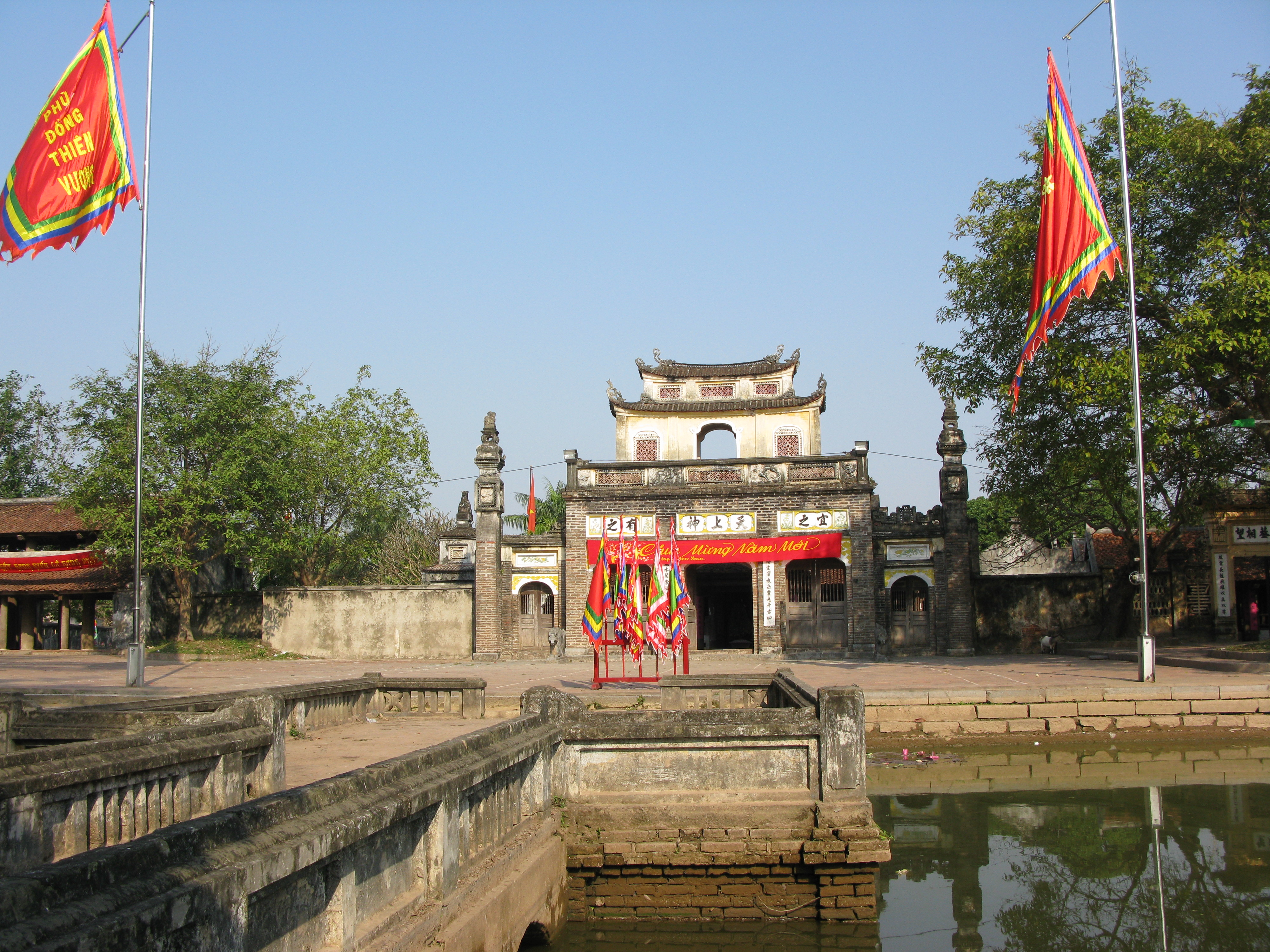 The main gate of the Phù Đổng Shrine (Phù Đổng village, Gia Lâm, Hà Nội)